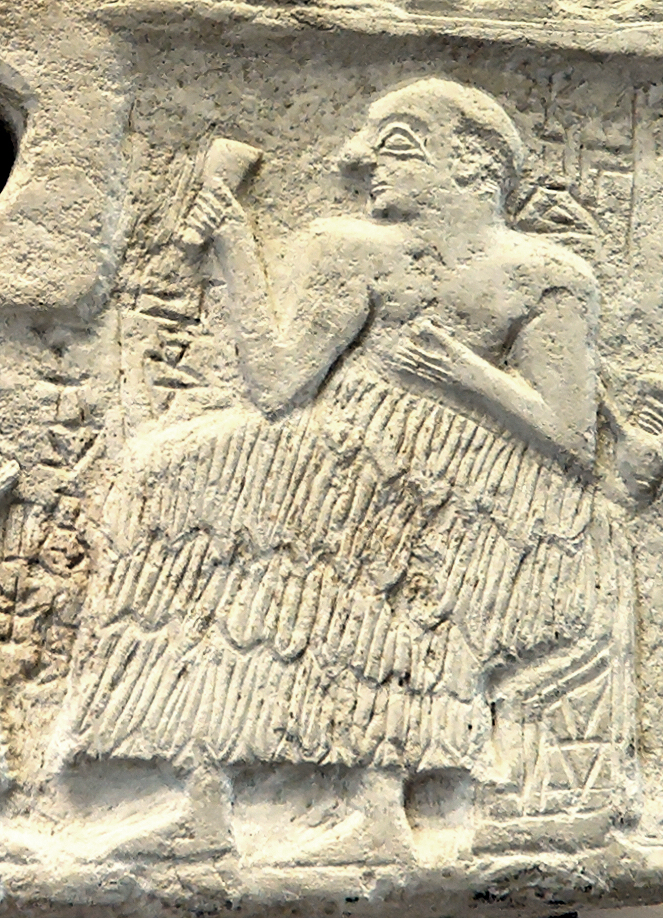 Ur-Nanshe